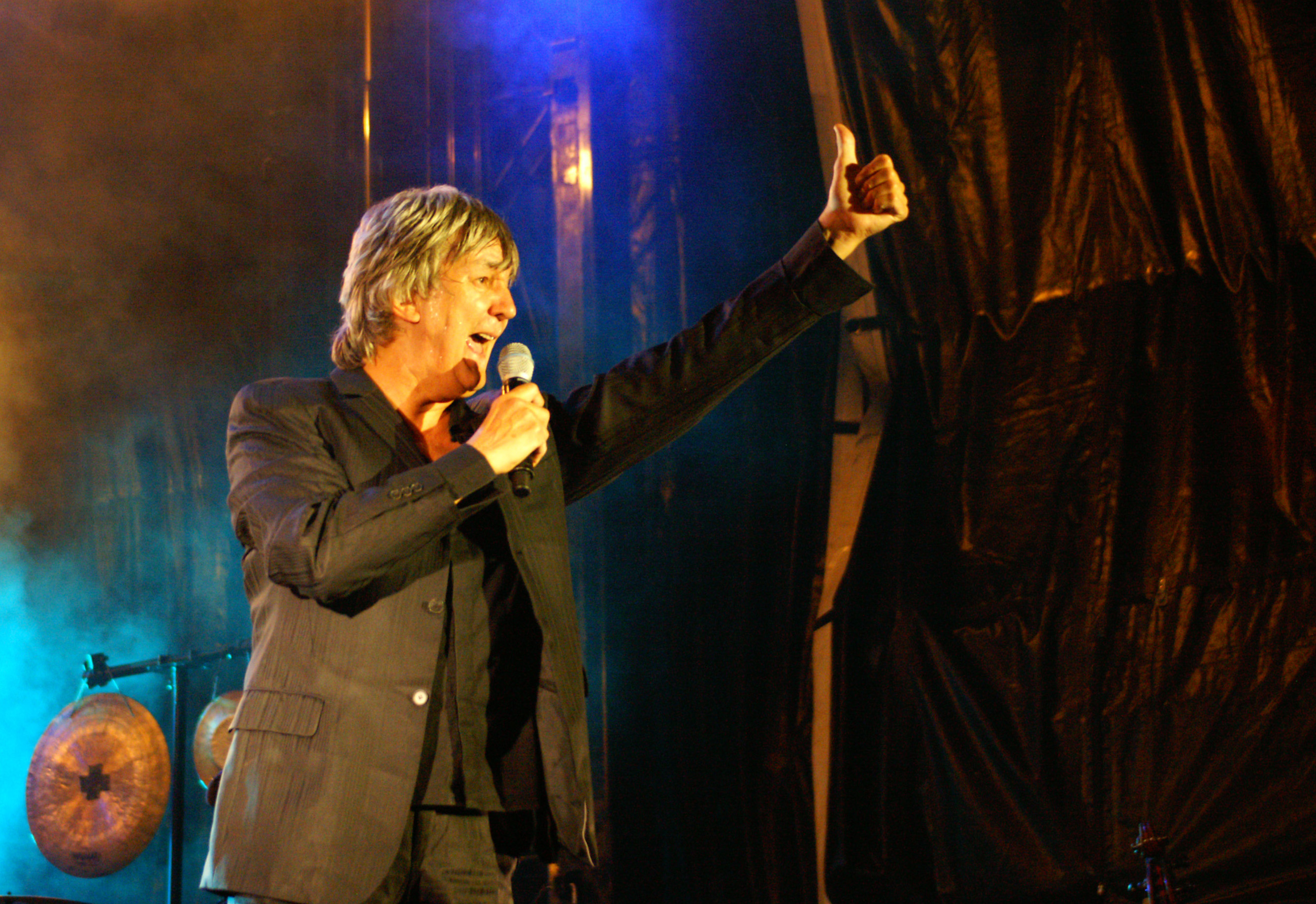 Jacques Higelin live at Aux Zarbs festival (Auxerre, France).